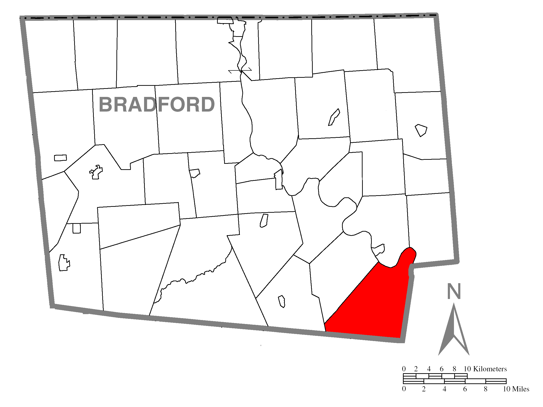 A map of Bradford County showing Wilmot Township, Pennsylvania (alternate) highlighted on the map.